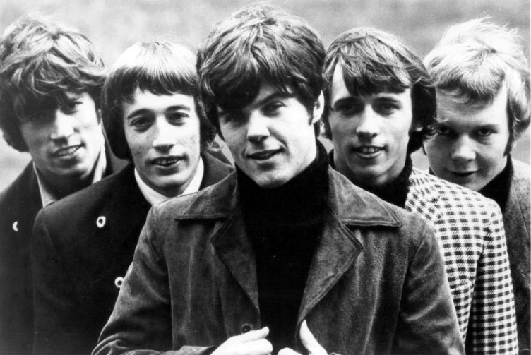 Publicity photo of the Bee Gees. (From left to right: Barry Gibb, Robin Gibb, Vince Melouney, Maurice Gibb, Colin Petersen.)